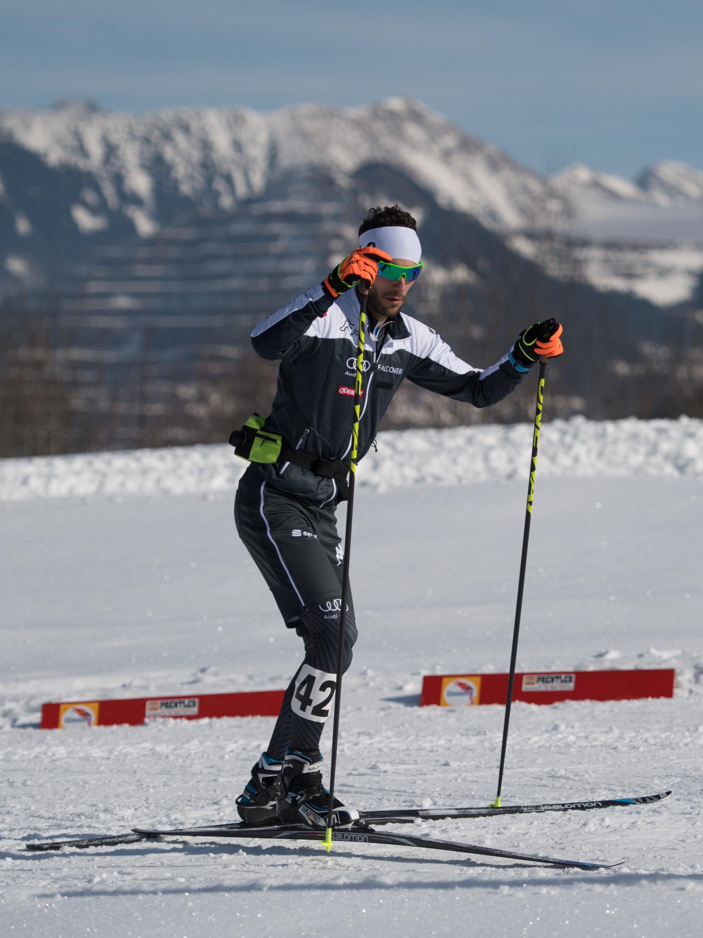 12/2/2017 Eisenerz, FIS Continental Cup Nordic Combined.